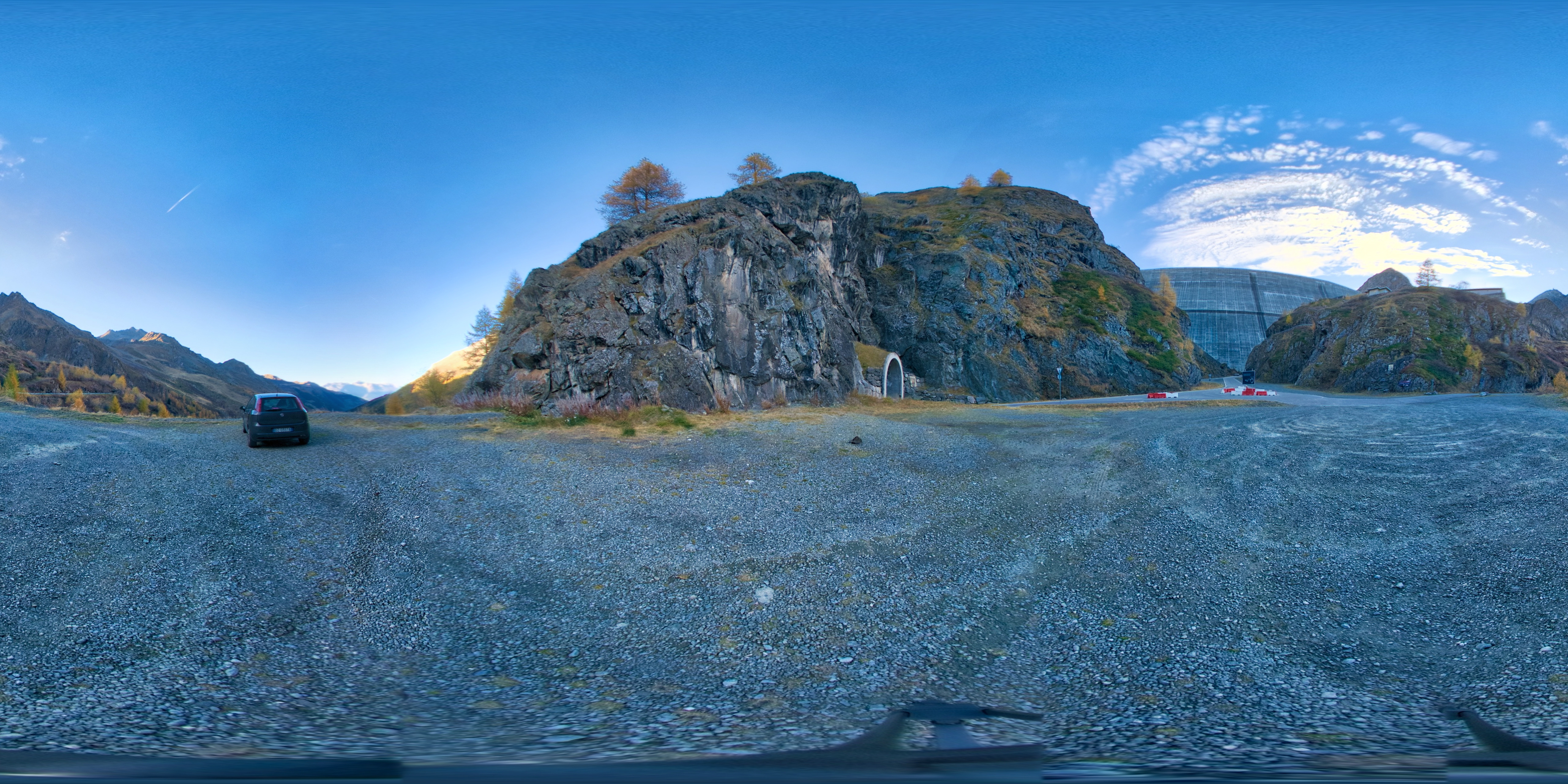 Spherical photo of the space in front of the Grande Dixence dam, in the Valais region (Switzerland).